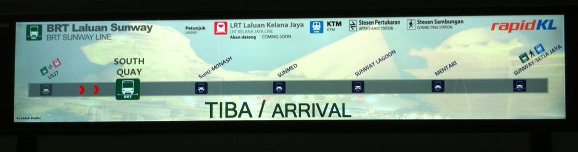 A dynamic route display showing e-bus at the current halt.